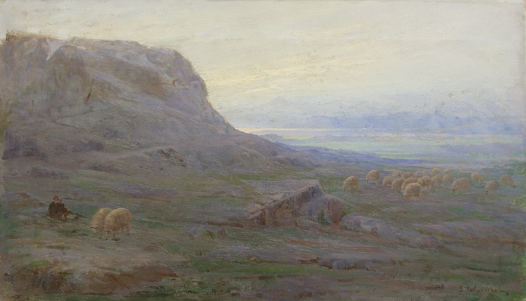 Shepherd with his flock at twilight